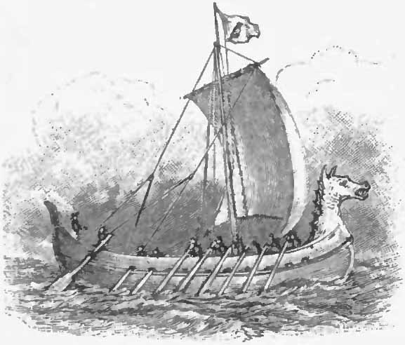 Drawing of a ship similar to that used by Thorfinn, the Scandinavian navigator.